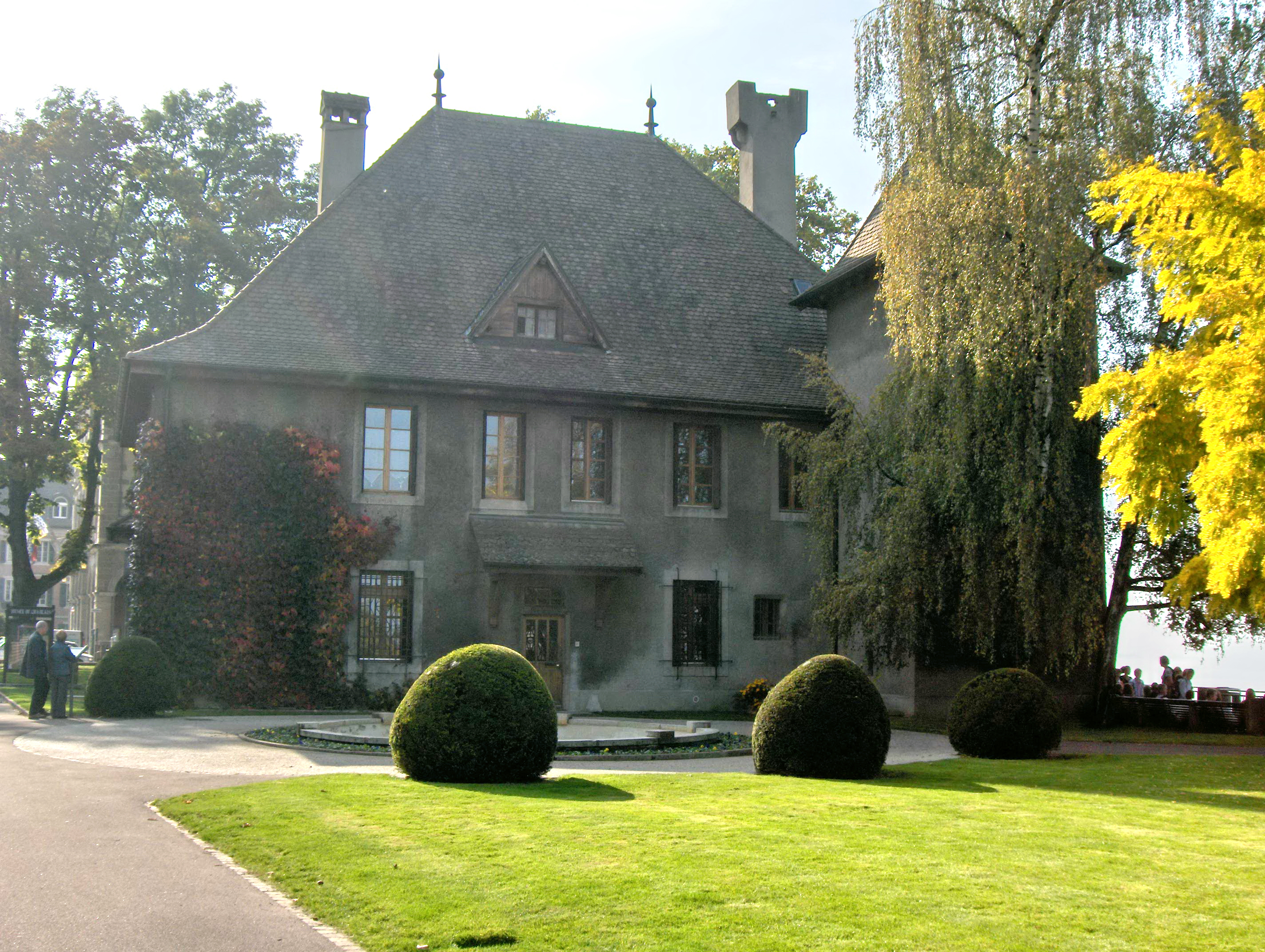 Castle of Sonnaz in Thonon-les-Bains.